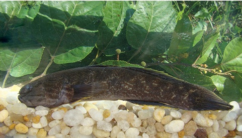 Guavina guavina